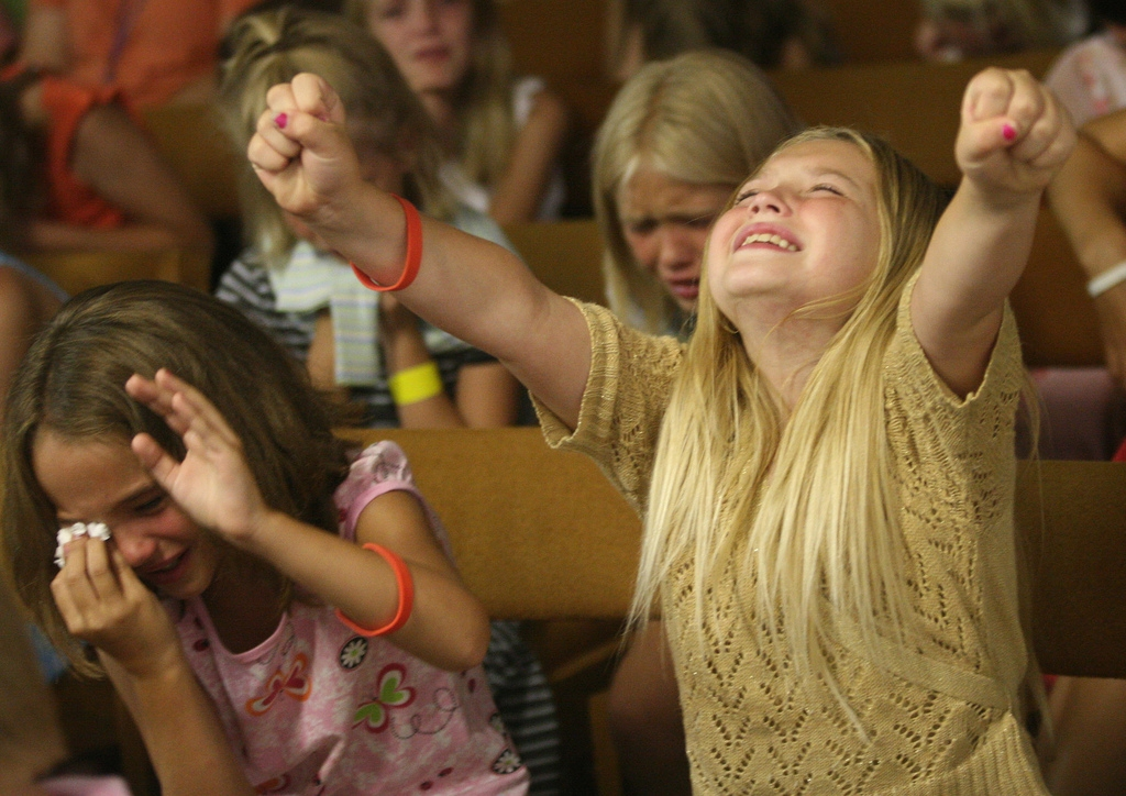 Lacey Johnson, 9, left, and Jasmine Anderson, 9, right, and Jaimie Brown, 10, in the center background, weep and raise their hands, after listening to a gospel presentation by Jason Mansur, a children's minister from Harvestime Church of Eau Claire, Wis., while at the Assembly Park Bible Camp, in Lake Nebagmon, Wis., on Monday, July 30, 2007. Anderson said that she wanted to "grow closer with her relationship with God." About eighty young people were beginning a week at the Assembly of God denomination camp. (AP PHOTO/The Country Today/Paul M. Walsh)